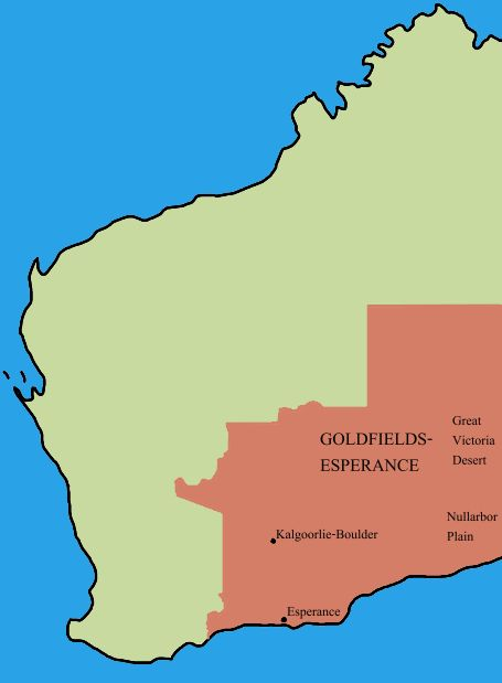 Western Australia region of Goldfields-Esperance, made by me